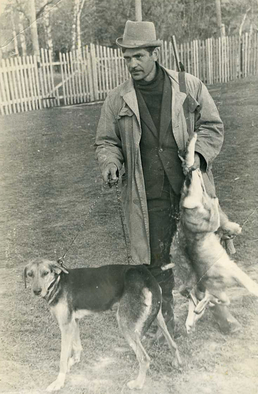 Ohotnik s zajcami